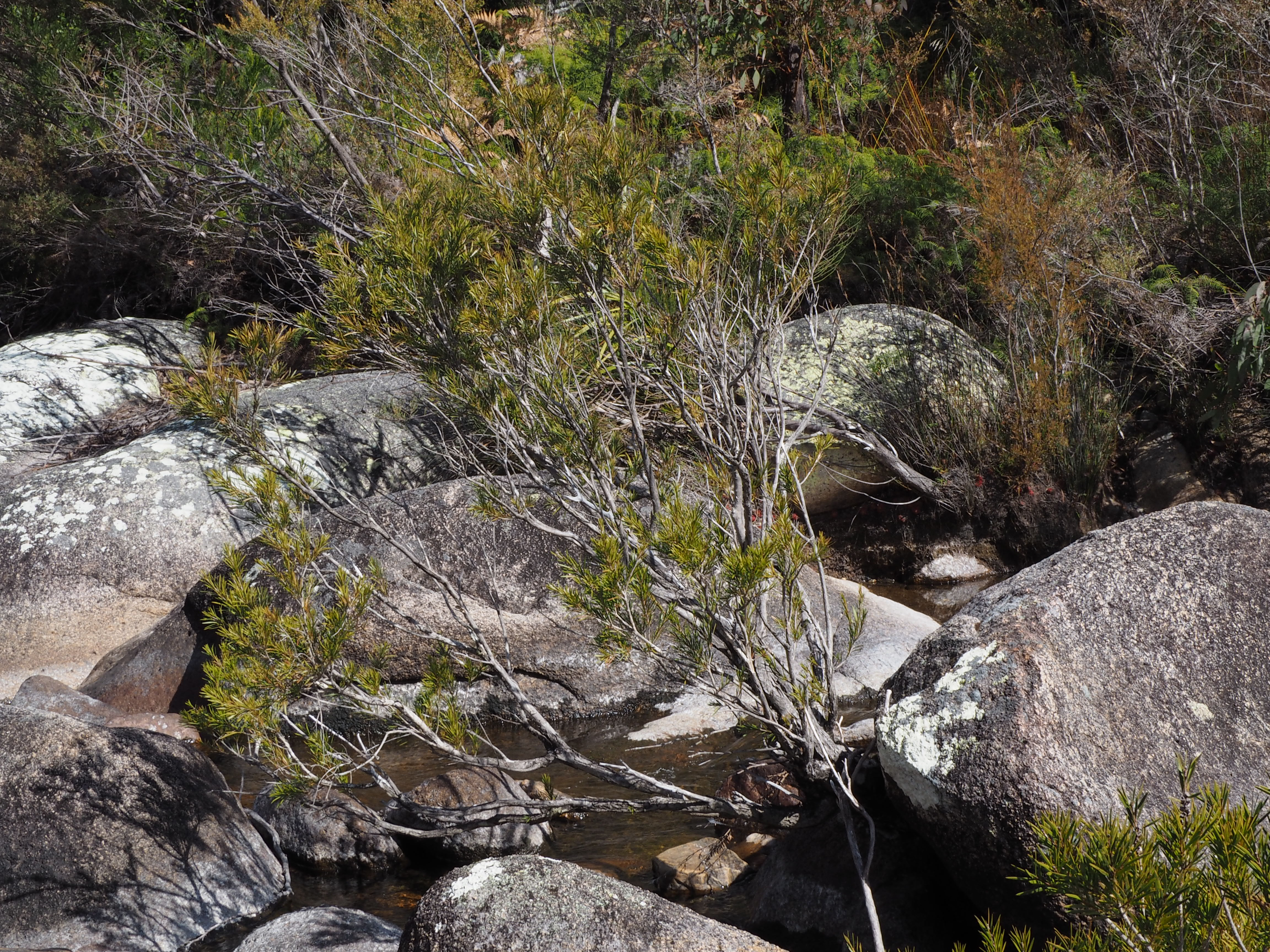 Melaleuca paludicola in Little Dandahra Creek near Mulligans Hut in the Gibraltar Range National Park